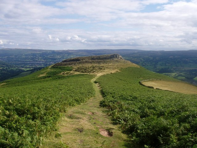 Atlas of Hillforts 1474 Crug Hywel / Table Mountain. Table mountain is rather grandiosely named, being just an outcrop on the south side of Pen Cerrig Calch (222150). It was used as a hill fort during the Iron Age - it must have been the obvious choice for that purpose at the time due to its large level surface surrounded by crags on almost all sides! Crickhowell (123586), the town below, was named after the fort. The area surrounding Table Mountain to W, S and E is enclosed farmland.